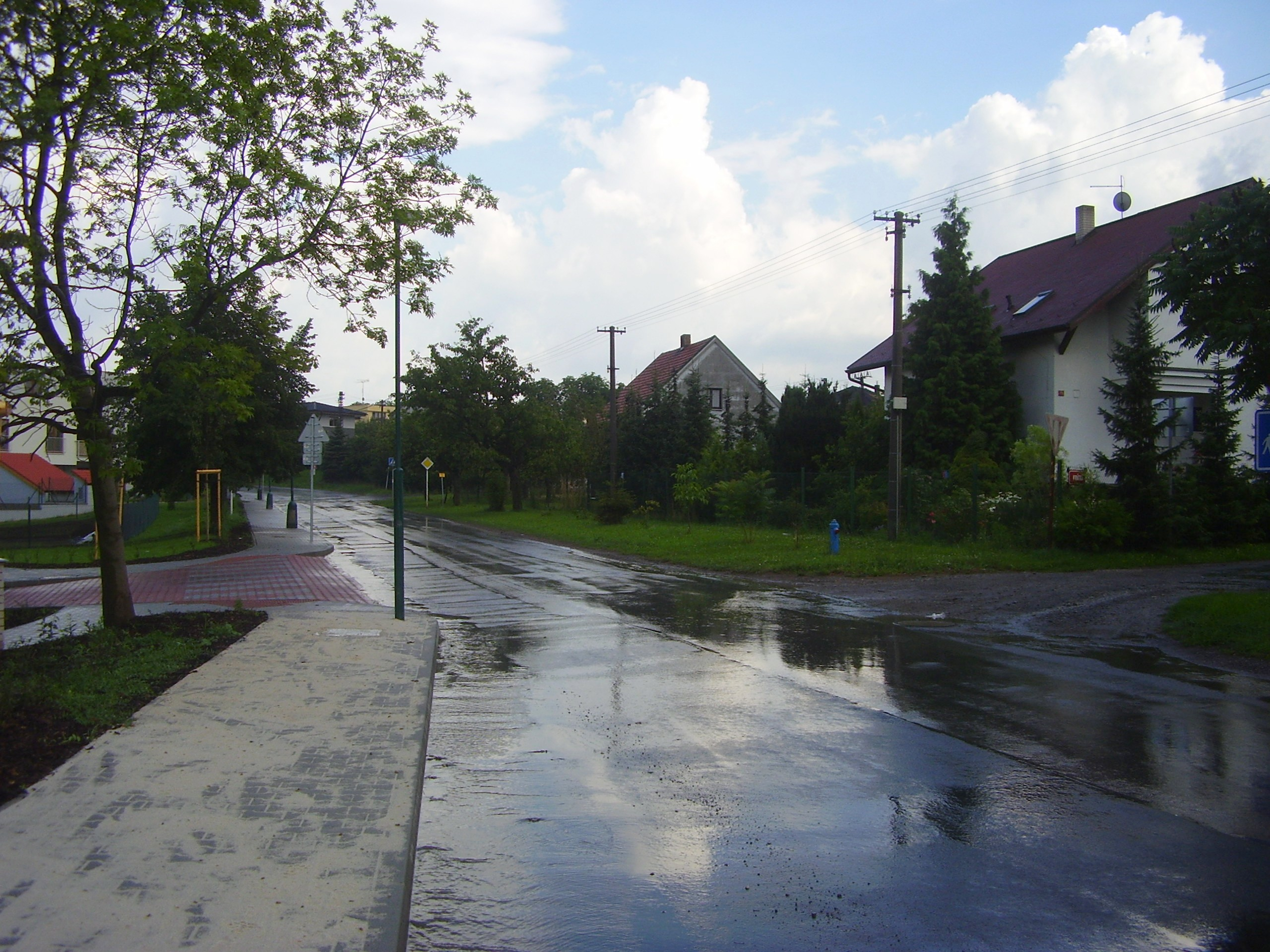 Road in Zbuzany, Prague-West District